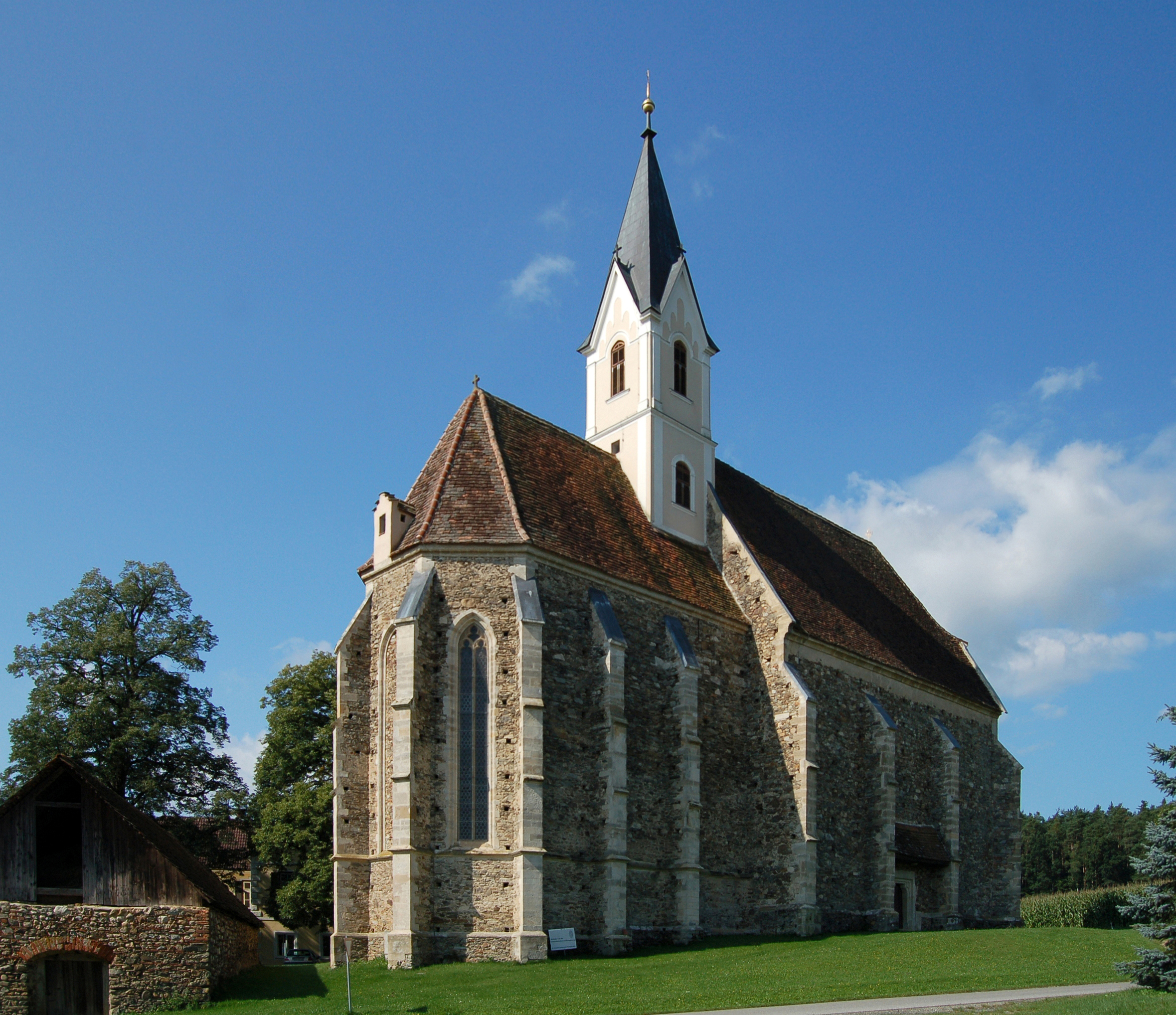 Gotic church St. Stefan in Hofkirchen bei Hartberg, Styria, Austria